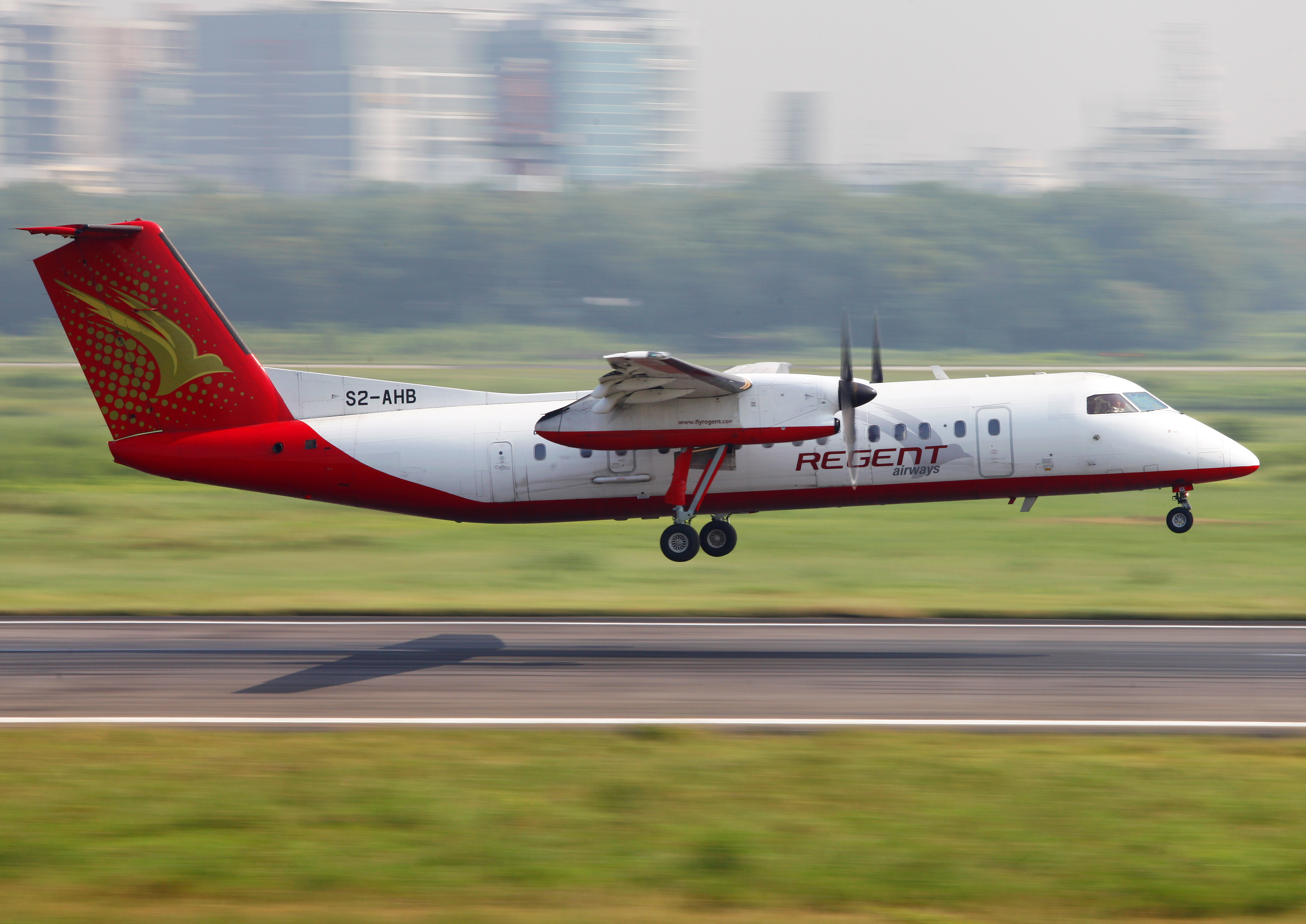 Regent Airways Bombardier Dash 8-Q311 S2-AHB Landing at Hazrat Shahjalal International Airport Dhaka DAC / VGHS